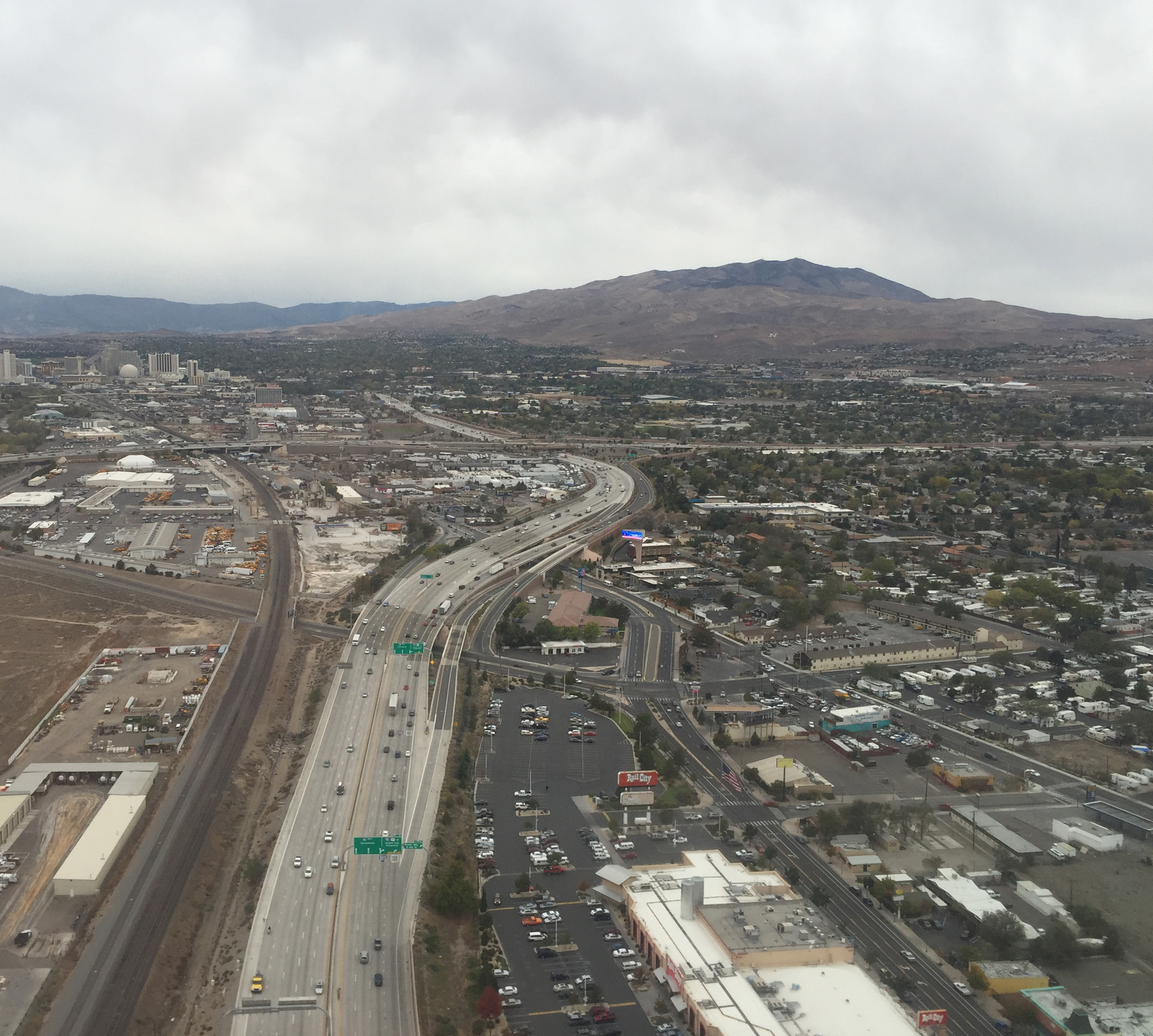 View west along Interstate 80 in Sparks, Nevada from an airplane landing at Reno-Tahoe International Airport